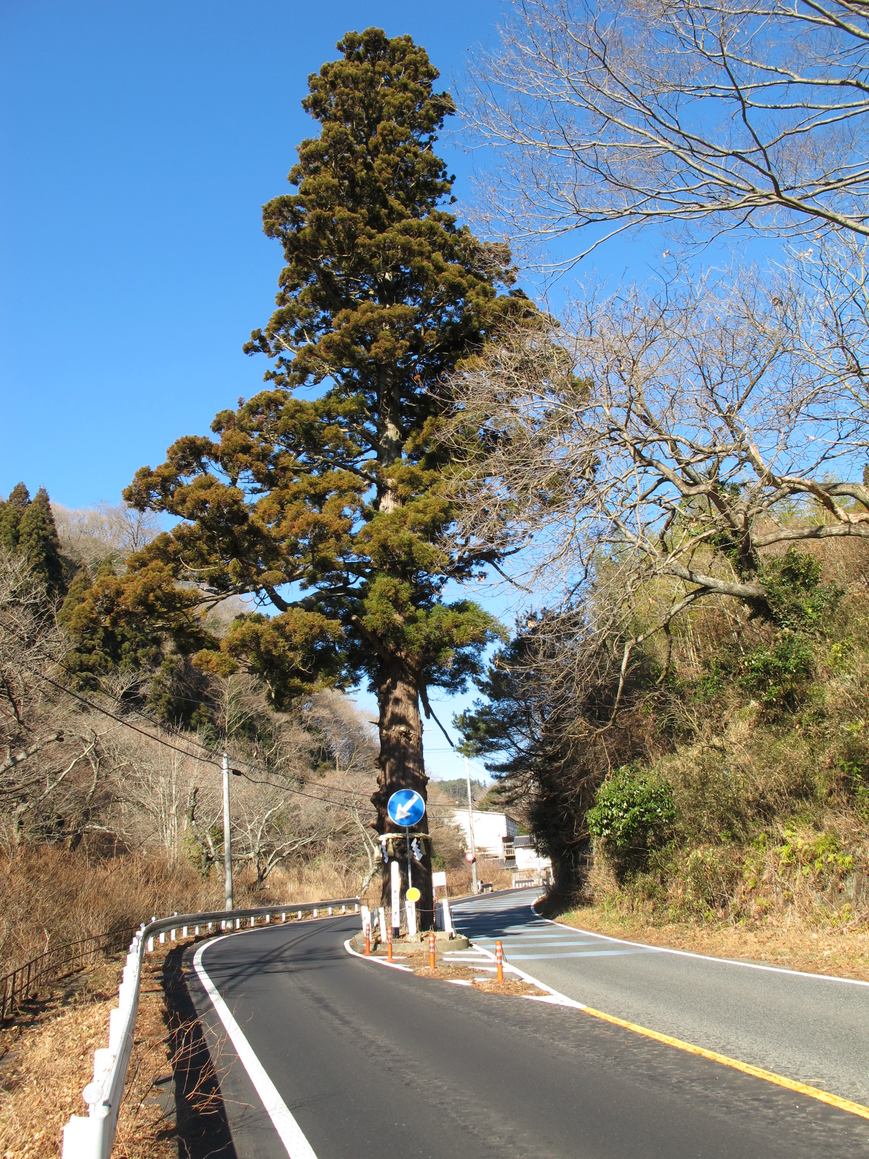 Ipponsugi (lone Sugi Cryptomeria japonica tree) in Motoyama, Hitachi City, on the Ibaraki Prefectural Road Route 36